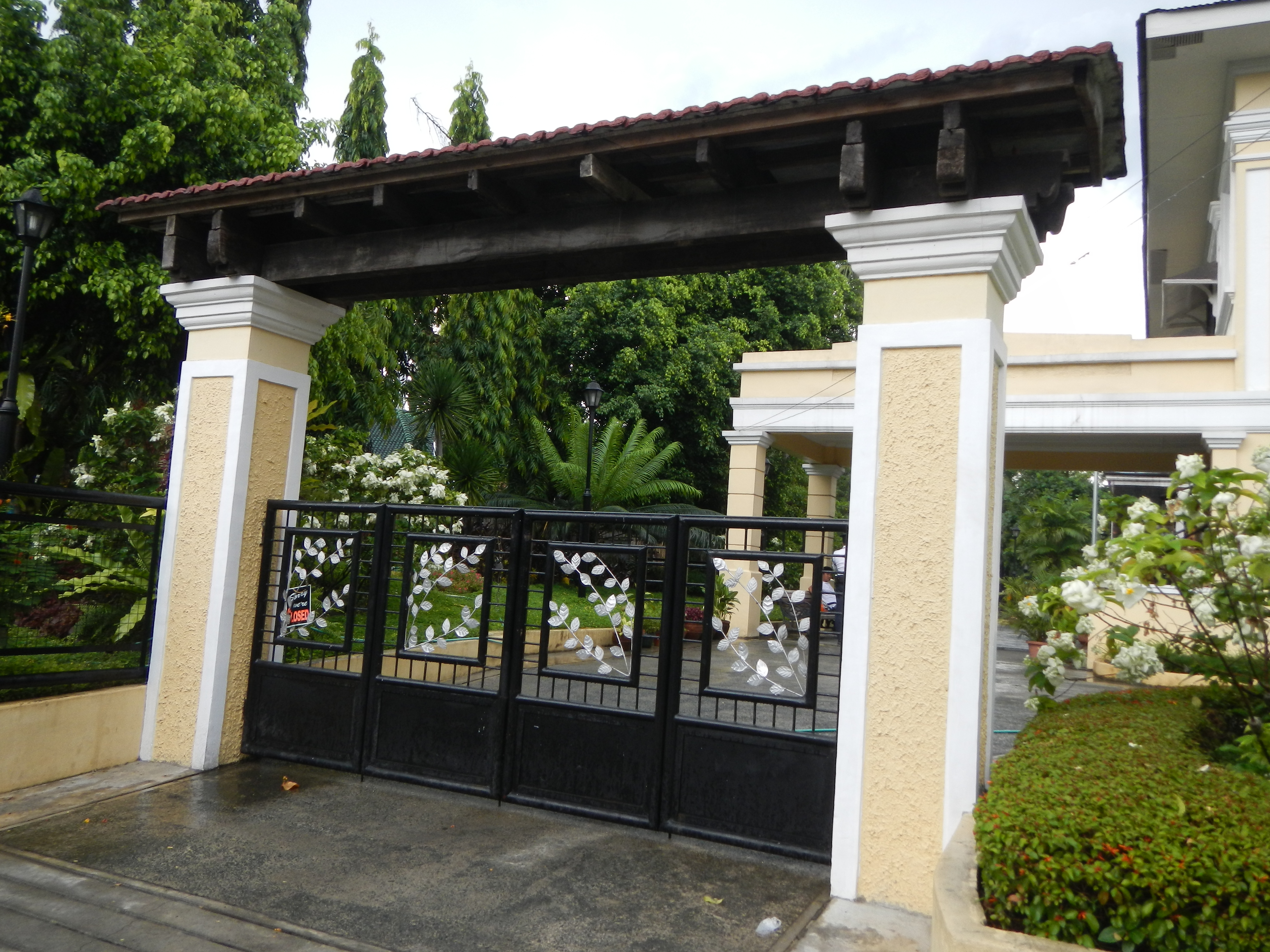 The Quezon Heritage House beside Circle Food Complex 500 sq.m. Quezon-Avanceña house originally located at 45 Gilmore Street, New Manila, Quezon City - in Quezon Memorial Circle, Quezon City (bounded by the Elliptical Road, a large 2-km Roundabout and Landmark in Quezon City, a tall Mausoleum containing the remains of Manuel L. Quezon, and his wife, First Lady Aurora Quezon, Quezon Memorial Shrine, Dancing water fountain Quezon Memorial Marker, Quezon Monument Museum; Quezon Memorial Circle as a people's park 15.65 hectares of green space in the park. 14° 39′ 03.98″ N, 121° 02′ 57.4″ E Metro Manila).